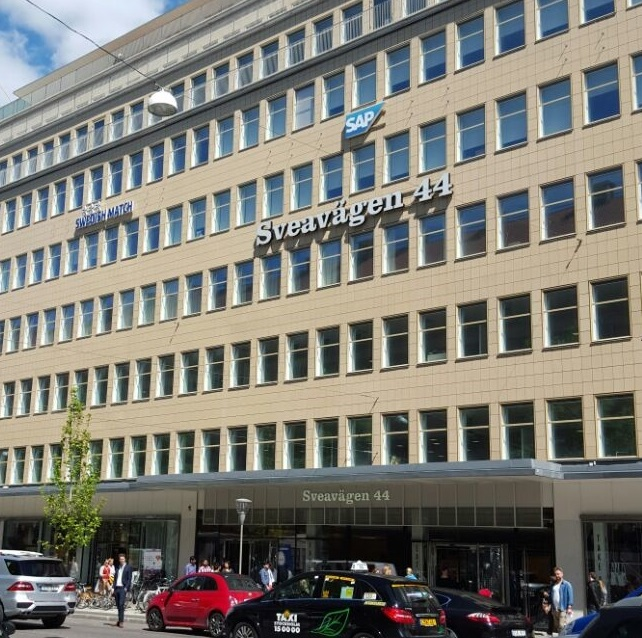 Exterior of Swedish Match headquarters at Sveavägen, Stockholm, as of 2015.